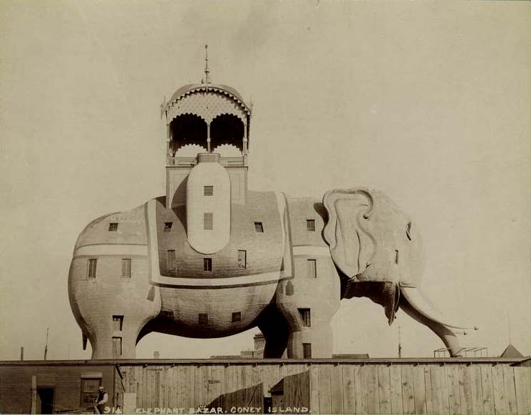 Side View photograph of Elephantine Colossus, a structure that was destroyed in 1896